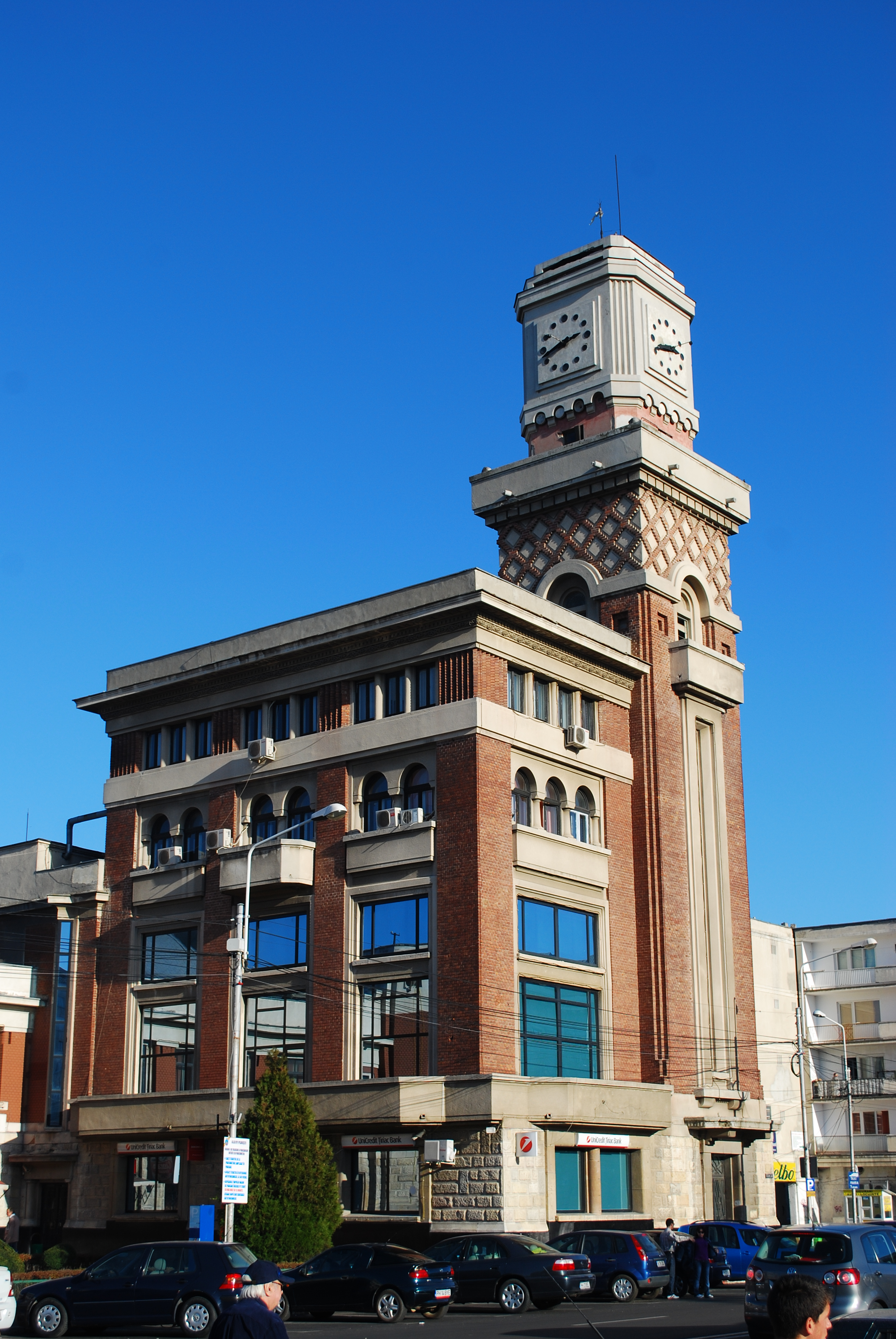 Central market in Ploieşti, Romania